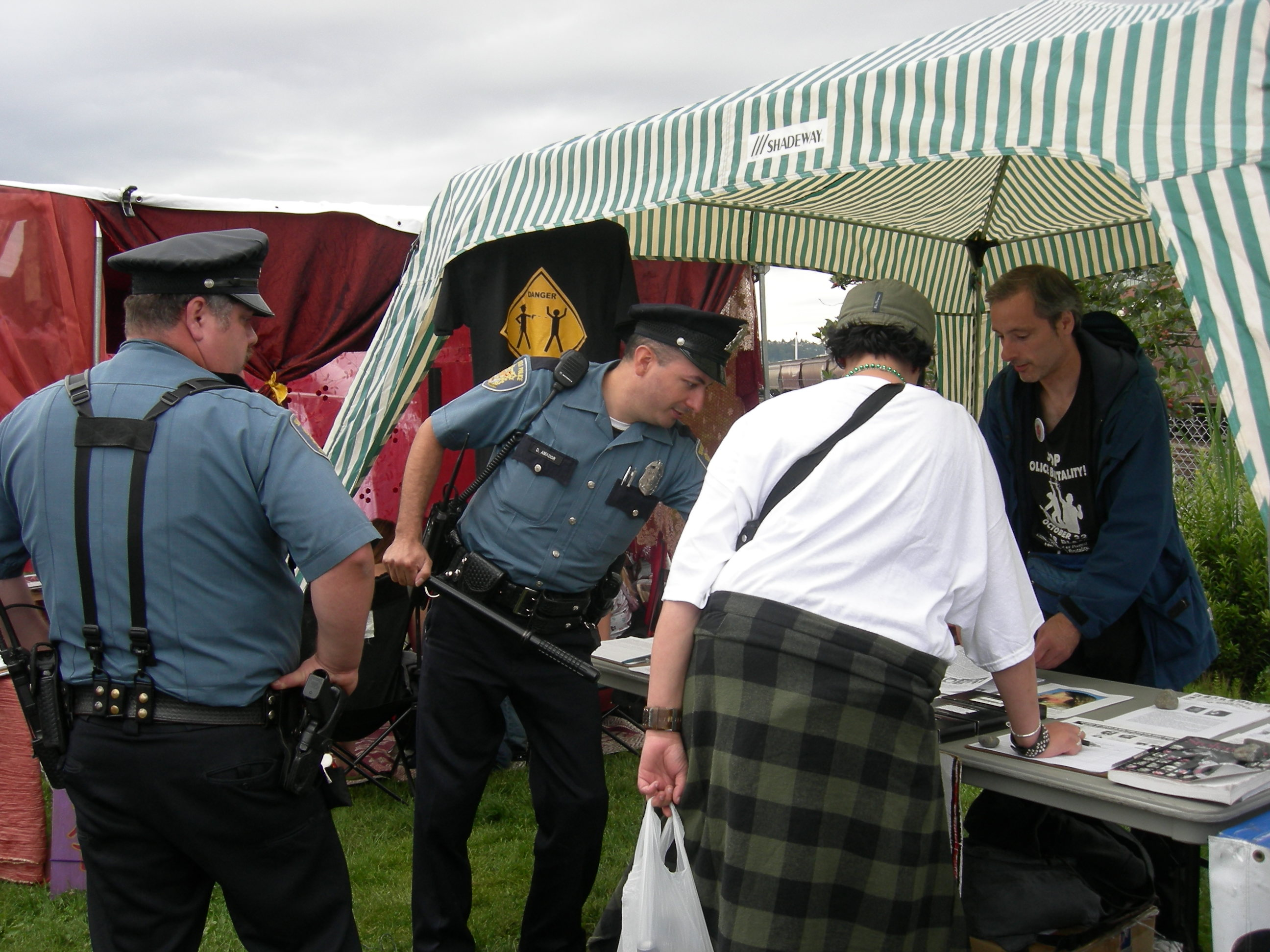 Seattle Hempfest, 2007. Police look in at the Socialist Alternative booth. The yellow sign over the police officer's shoulder near the center of the picture says "Danger: Police in area".